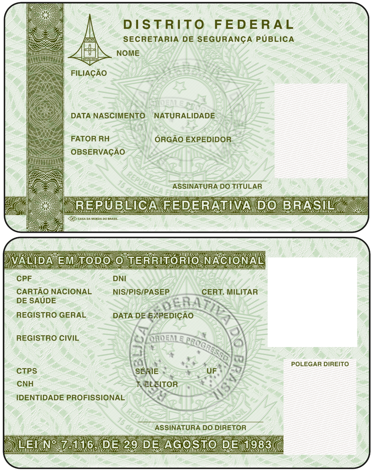 New model of Brazilian identity card from 2019 (plastic card version)